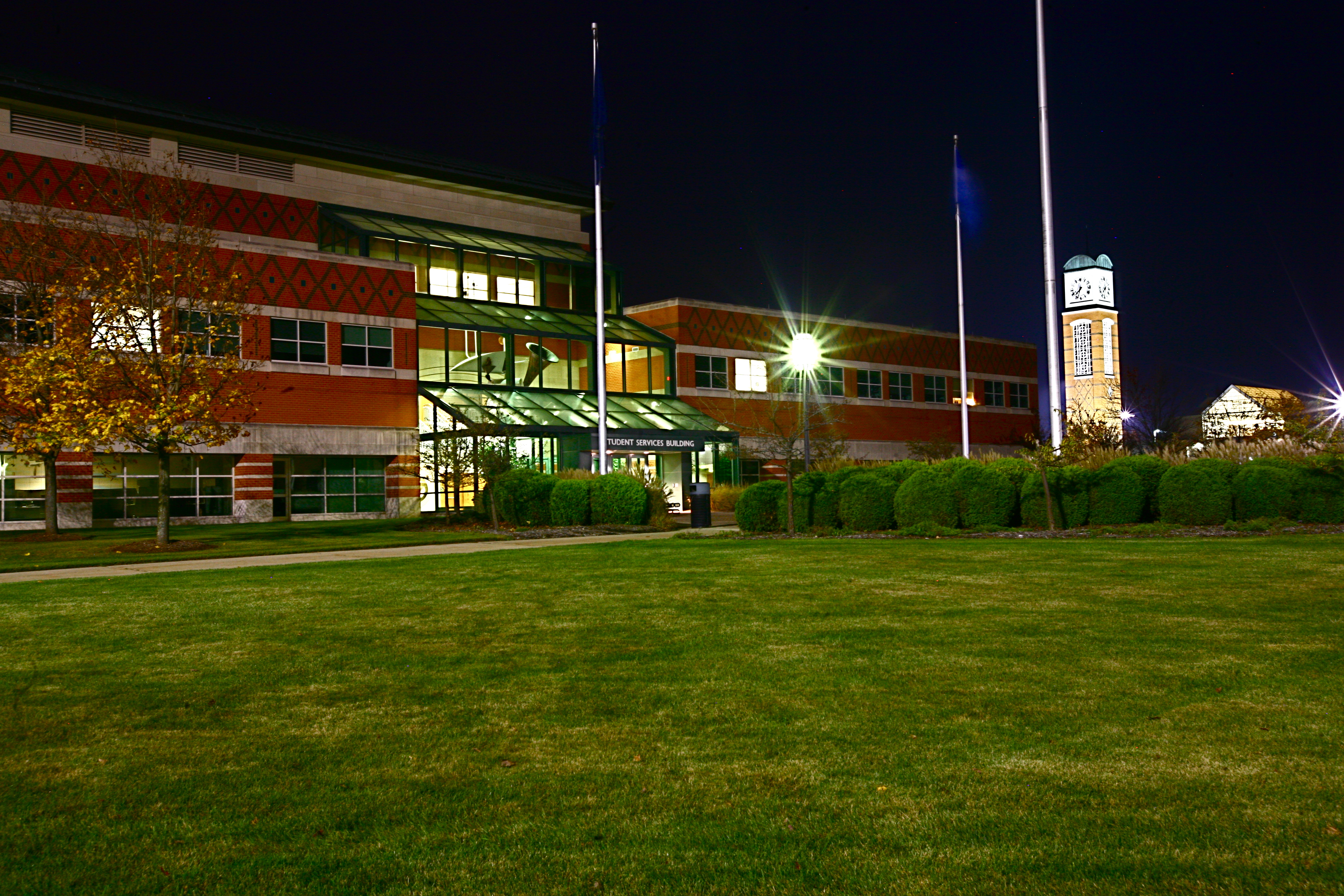 Grand Valley State University Allendale Student Services Building at night.